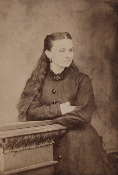 Edith Cowan as a teenager